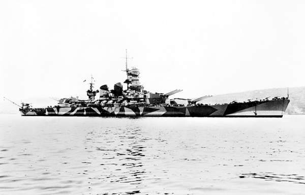 The italian battleship Roma (1940)